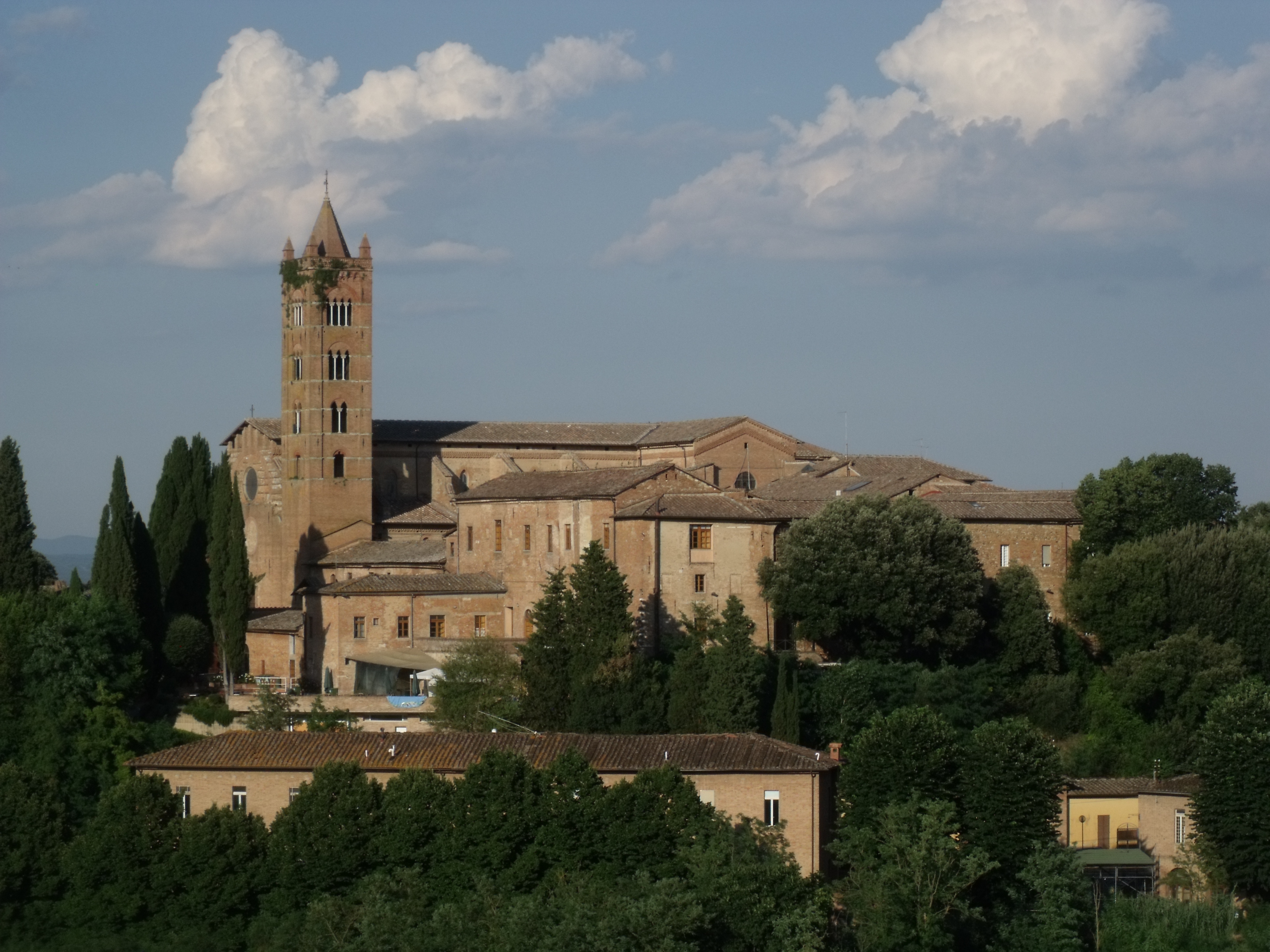 Basilica San Clemente in Santa Maria dei Servi in Siena, Province of Siena, Tuscany, Italy